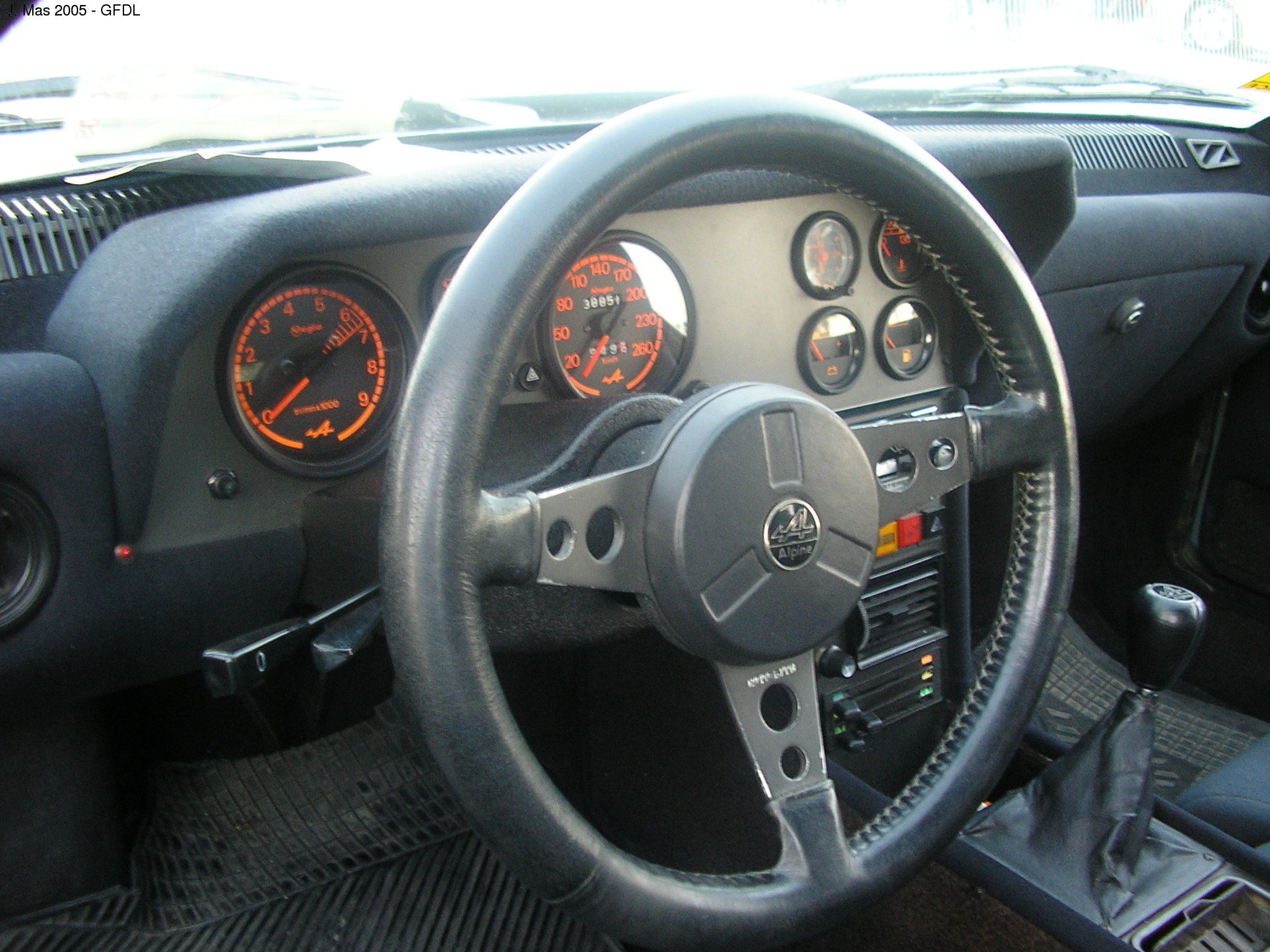 Description: Renault Alpine A310 Source: Own photo, 2005 Photographer: Picture taken by Usuario:Barahonasoria (spanish wikipedia)